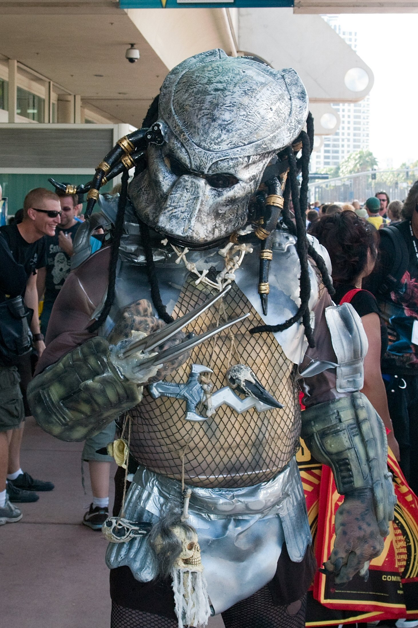 San Diego Comic-Con 2007 day 2.